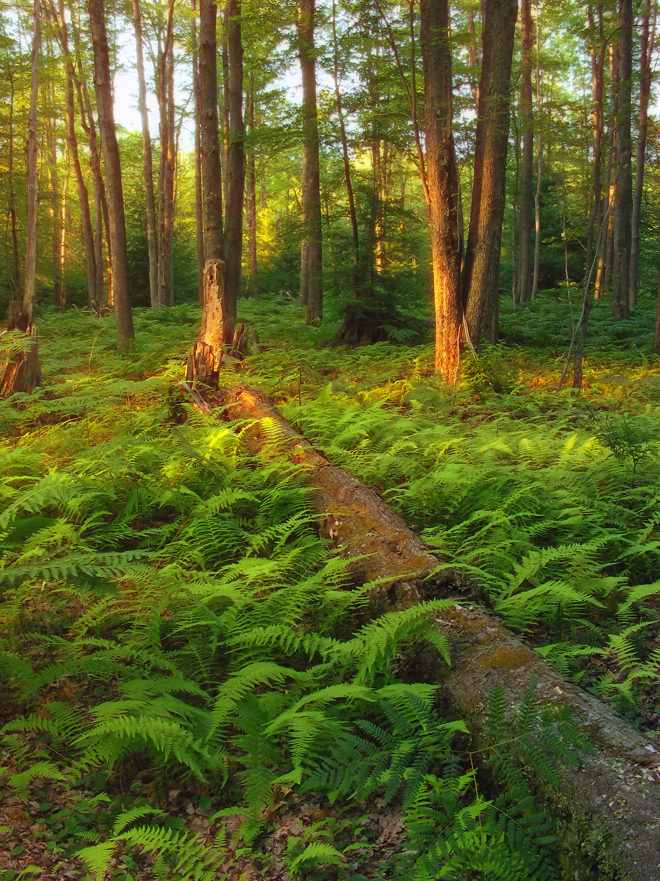 Late-day light, Quehanna Wild Area, Moshannon State Forest, Clearfield County.